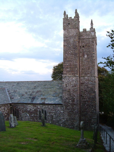 West tower of St Nicholas' parish church, Broadwoodwidger, Devon, seen from the north